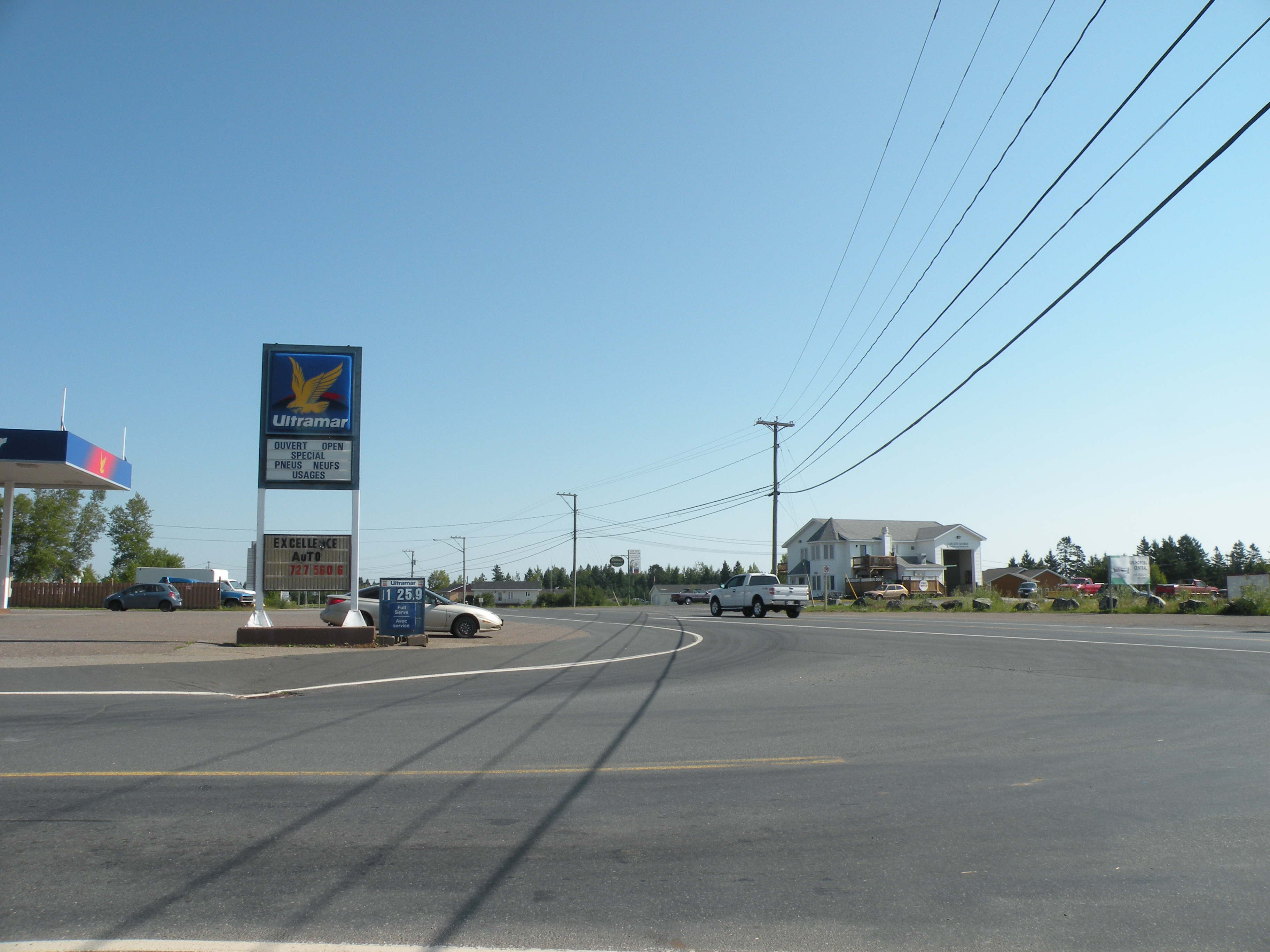 Roads 11 and 350 junction in Pokemouche, New Brunswick, Canada. Road 113 is not visible but at the right.